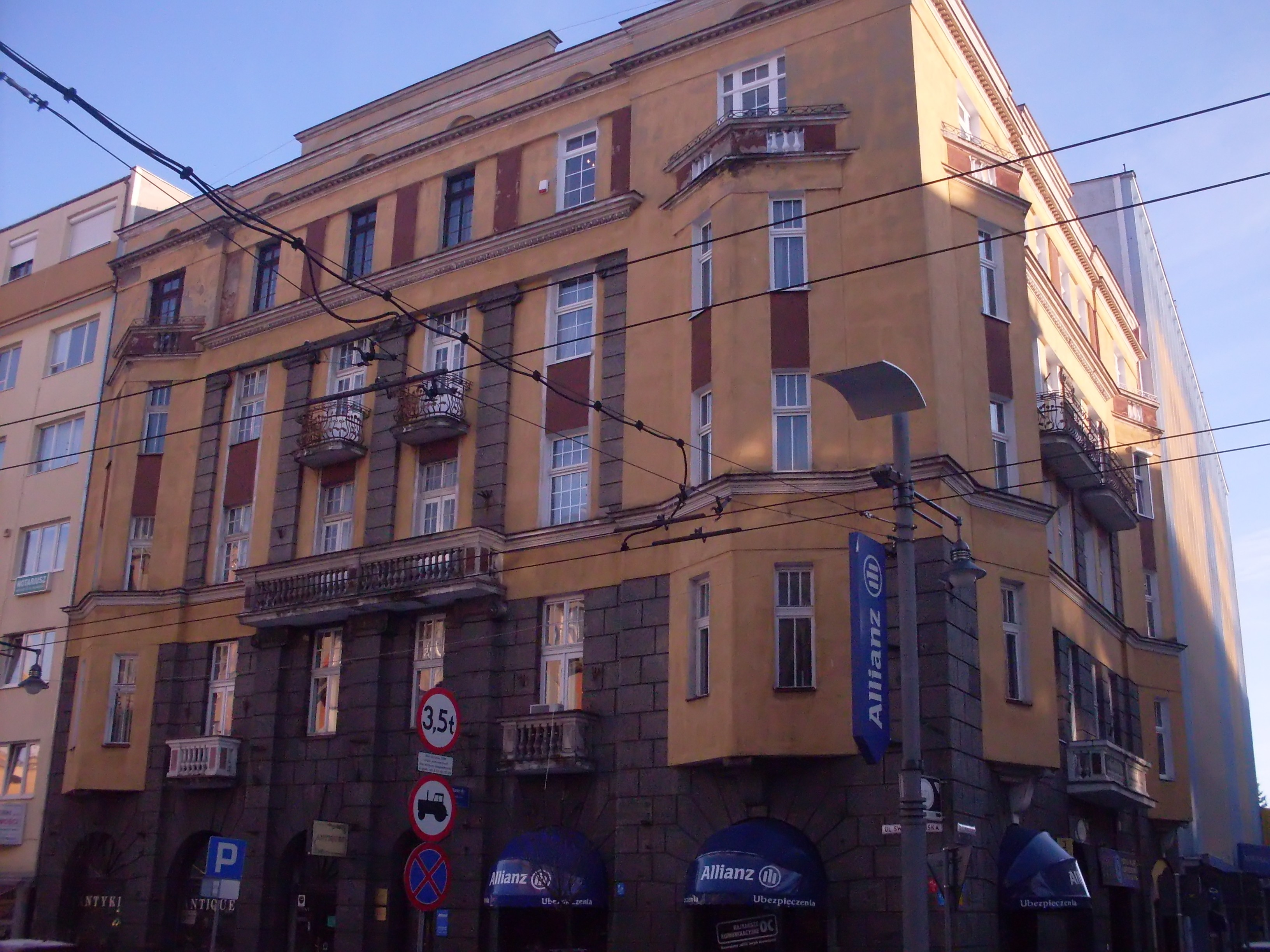 House at ulica Świętojańska 9, Gdynia.